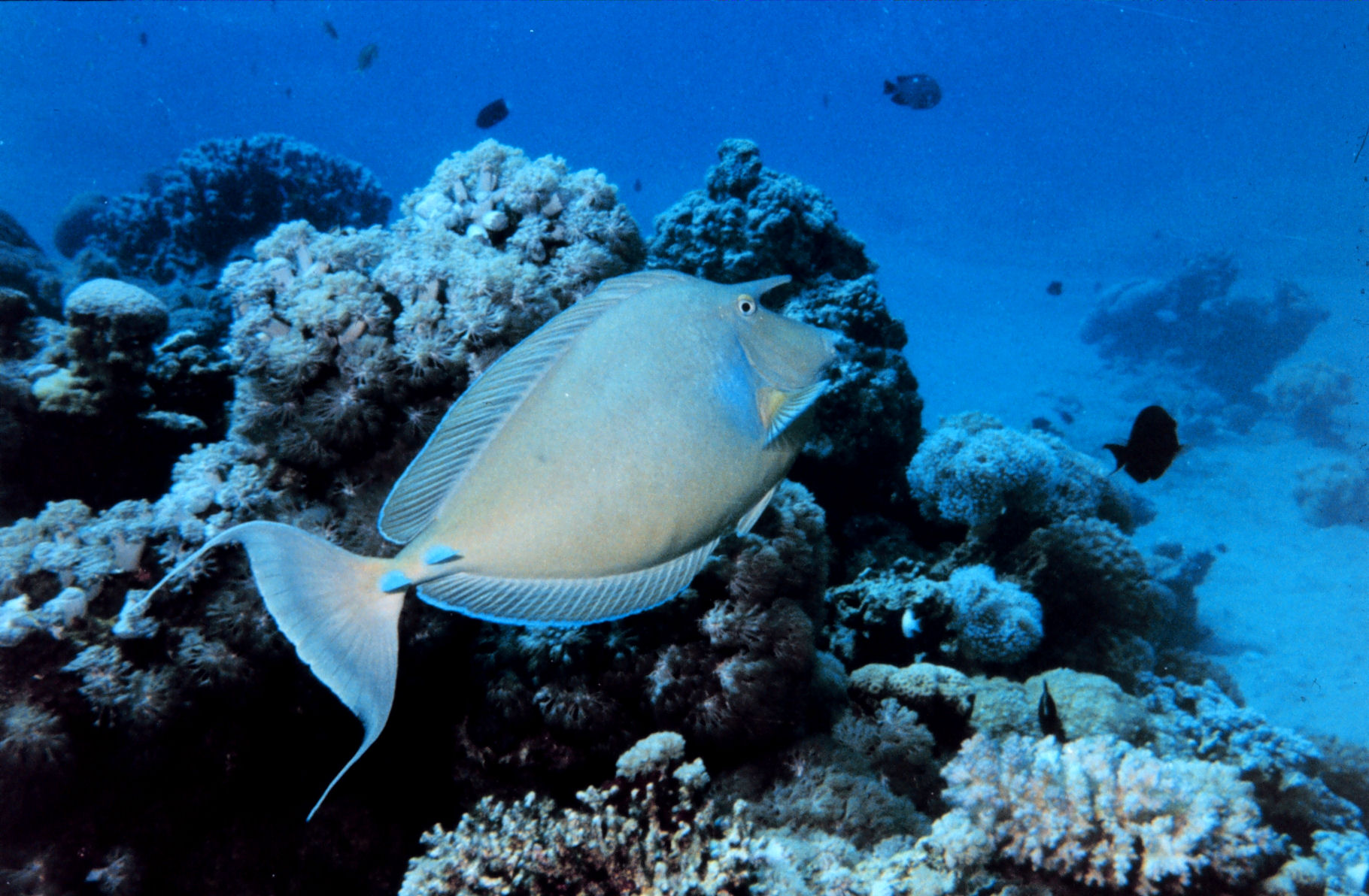 Naso unicornis in the Gulf of Aqaba, Red Sea